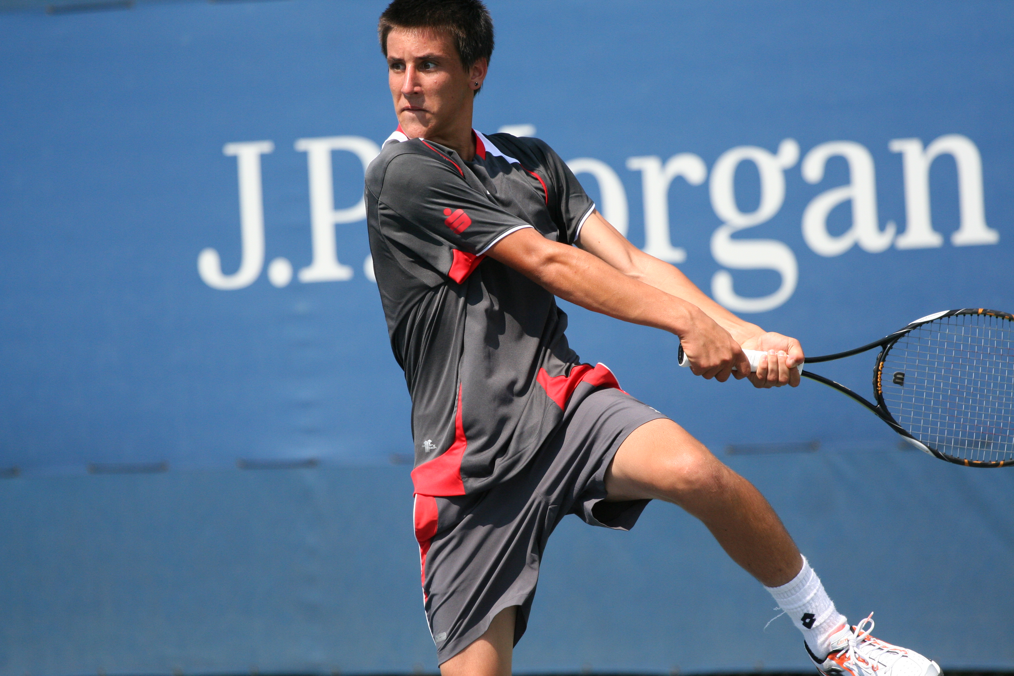 Damir Dzumhur U.S. Open Juniors Sept. 8, 2010